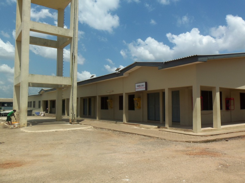 KASS Dining Hall